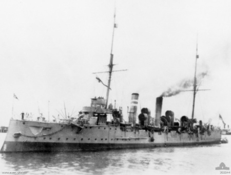 AWM caption : "PORT MELBOURNE, VIC. C.1913. PORT BOW VIEW OF THE CRUISER HMS PROMETHEUS COMING ALONGSIDE. NOTE THE 4 INCH GUN ON HER FORECASTLE AND EMBRASURE FOR A 3 POUNDER GUN IN HER BOWS. THE TWO BANDS ON THE FORE FUNNEL ARE AN IDENTIFICATION MEASURE."